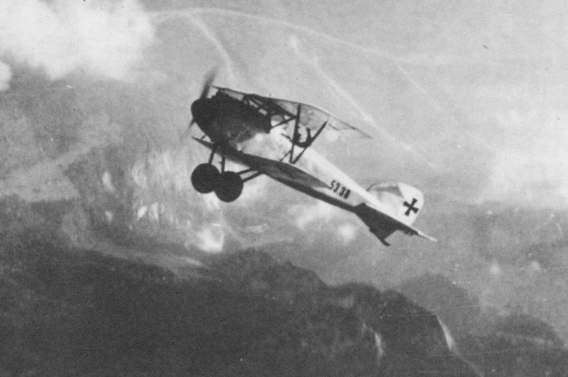 Albatros D.III